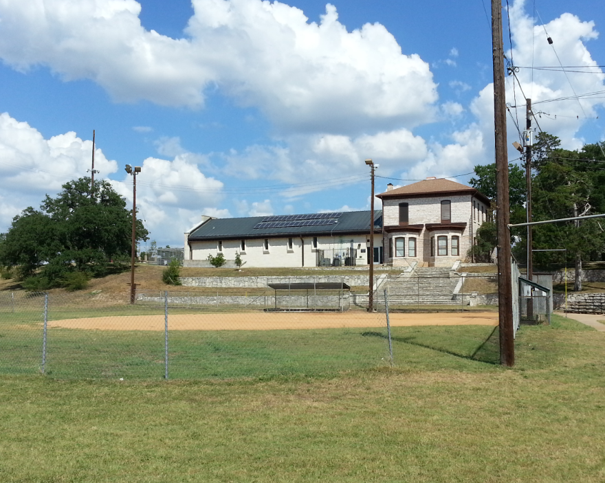 Rosewood Park baseball field in Austin, TX, facing east from Chestnut Avenue. Behind the field is the Rosewood Recreation Center in the historic Bertram-Huppertz house, with a stone staircase to the field constructed by the Civil Works Administration (C. W. A.) in 1934.